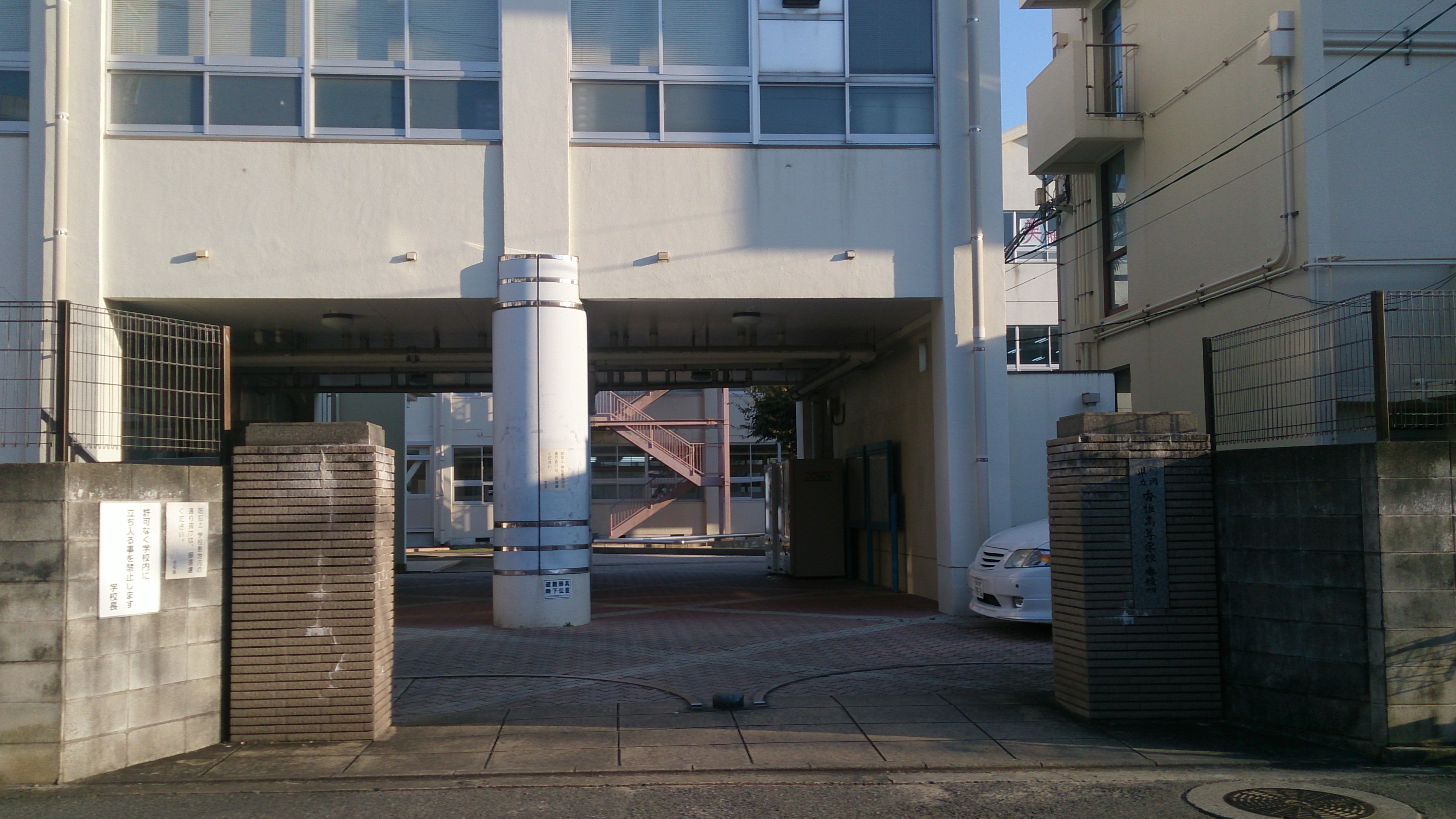 Kashii High School Koryo Gate.jpg